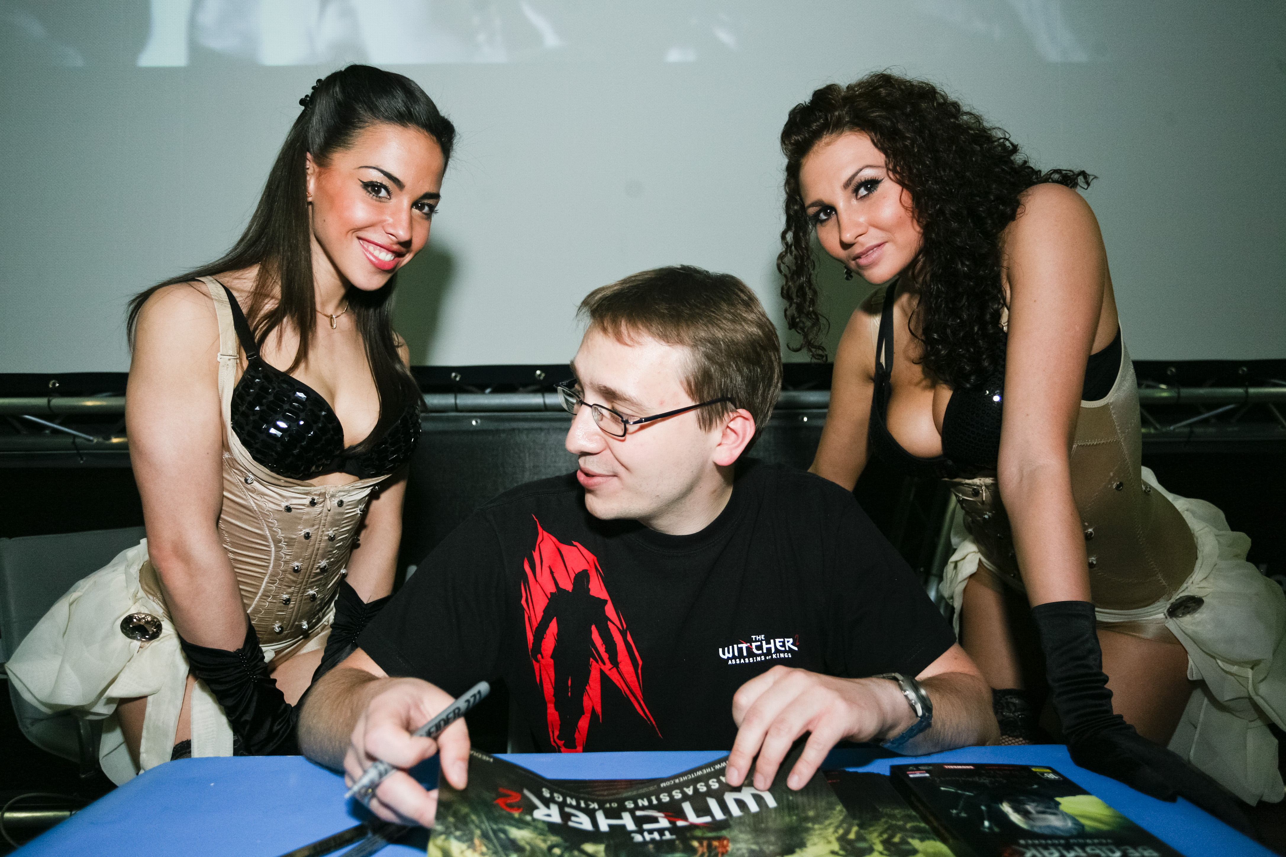 Taken on May 16, 2011 Canon EOS 5D